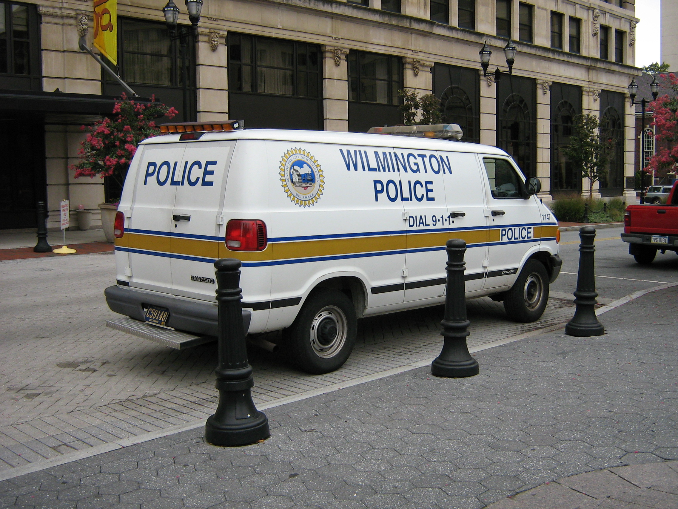 Wilmington DE Police Dodge Van